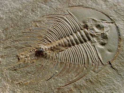 Trilobite Fossil Olenellus fowleri (Palmer 1998) Lower Cambrian Order Redlichiida, Suborder Olenellina, Family Olenellidae Pioche Shale Formation, Lincoln County, Nevada